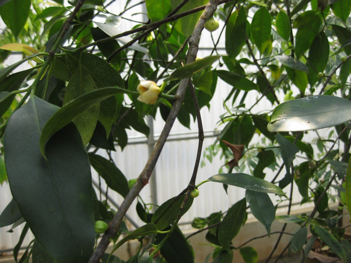 Photographed at the Queen Sirikit Botanic Garden (Chiang Mai Province, Thailand) in March